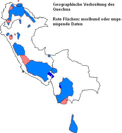 Geographical distribution of Quechua